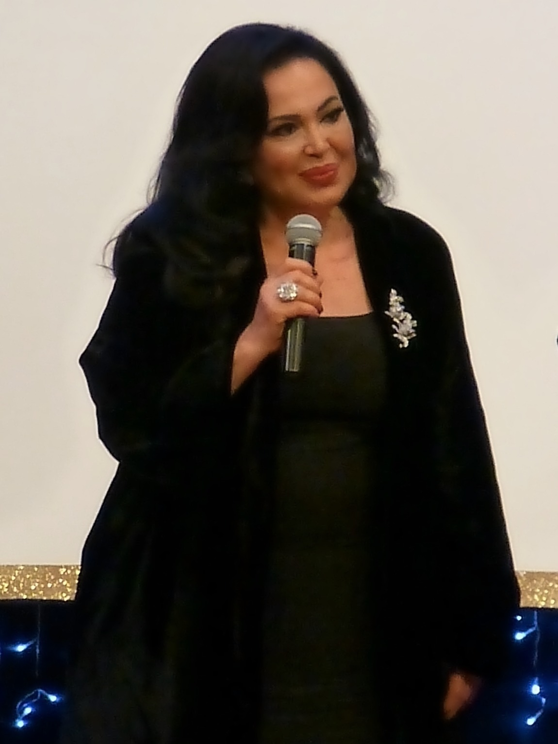 Turkan SorayTürkçe: Türkan Şoray